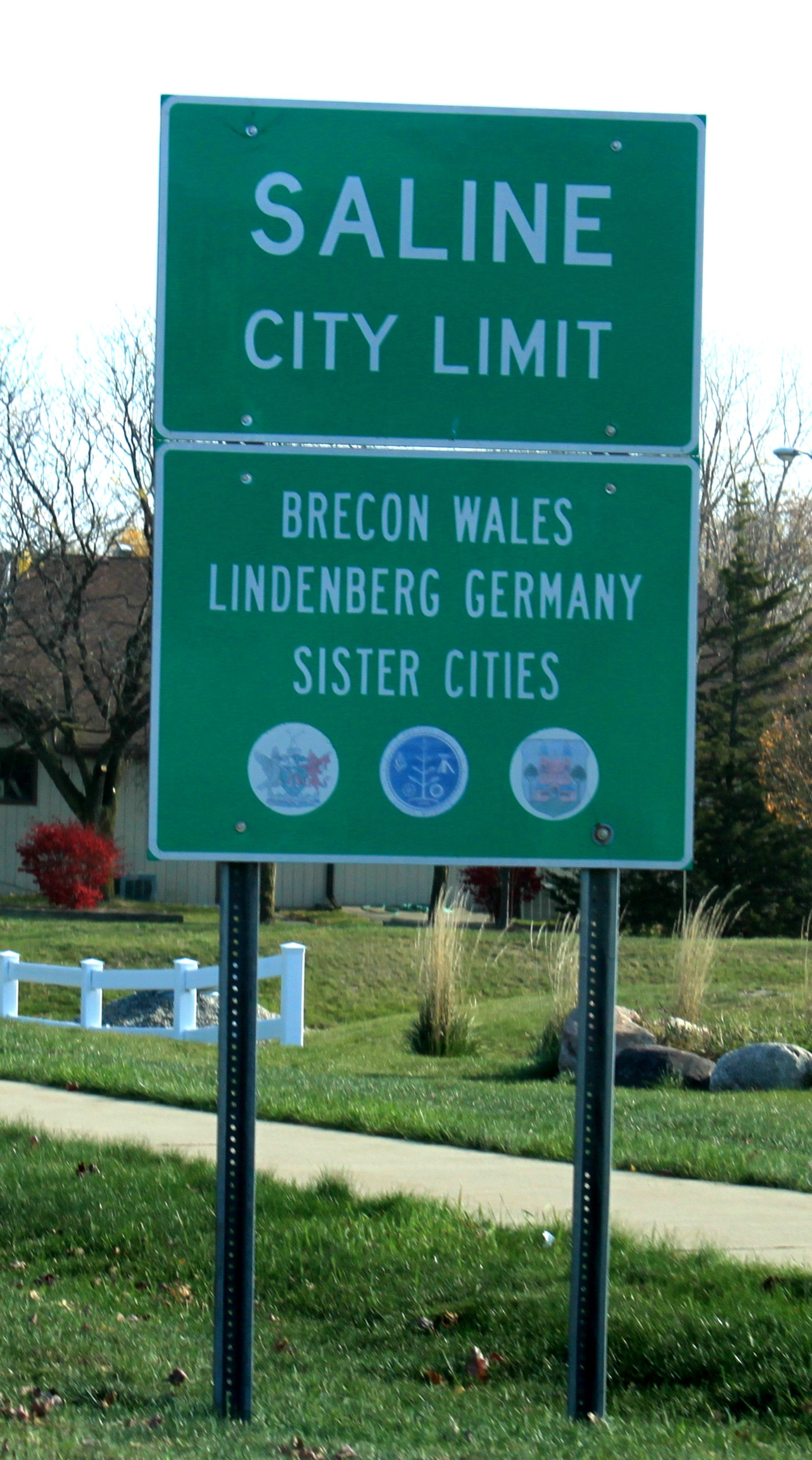 Saline Michigan Sister Cities sign, Michigan Avenue